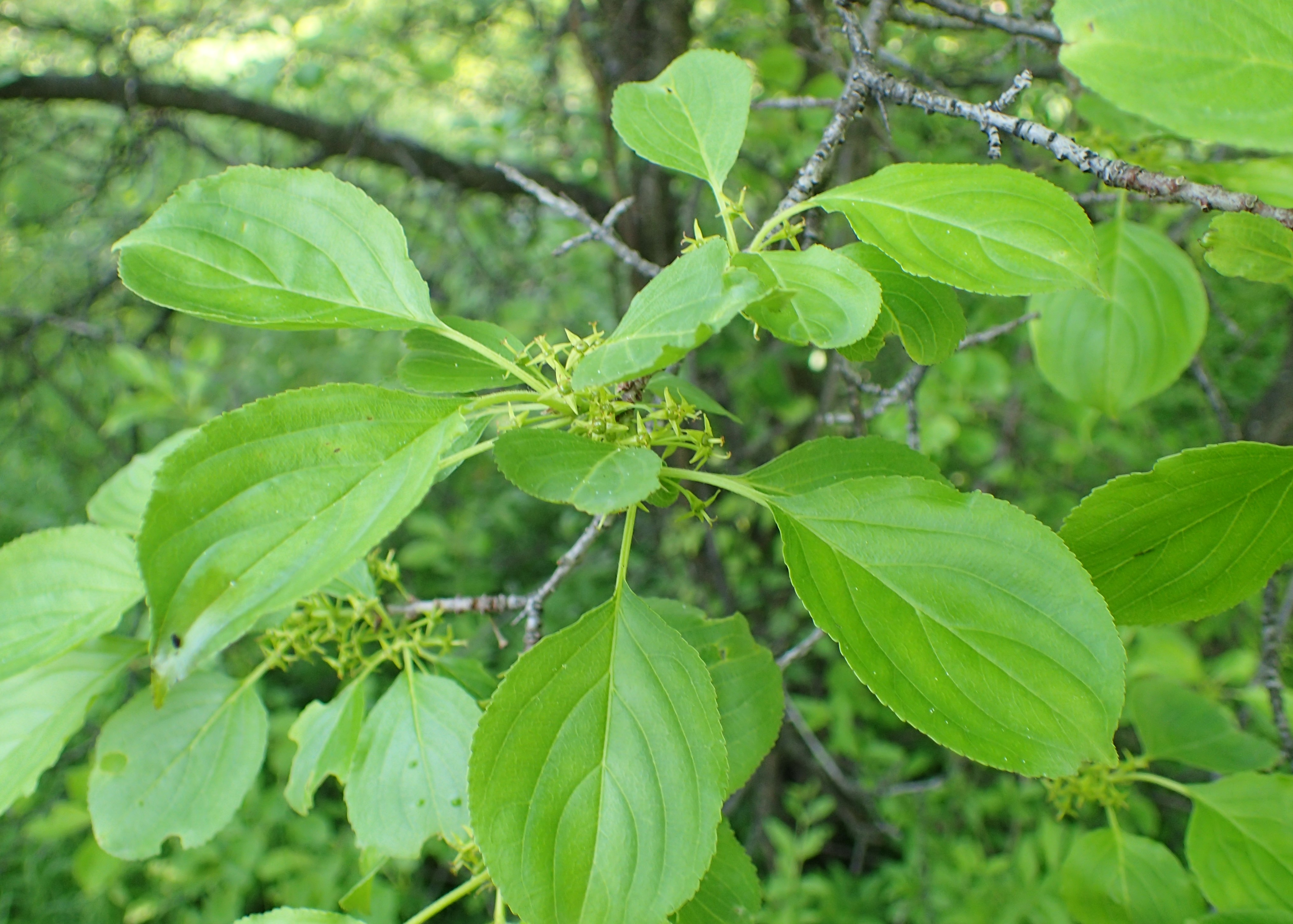 Rhamnus utilis in botanical garden of the Bulgarian Academy of Sciences, Sofia